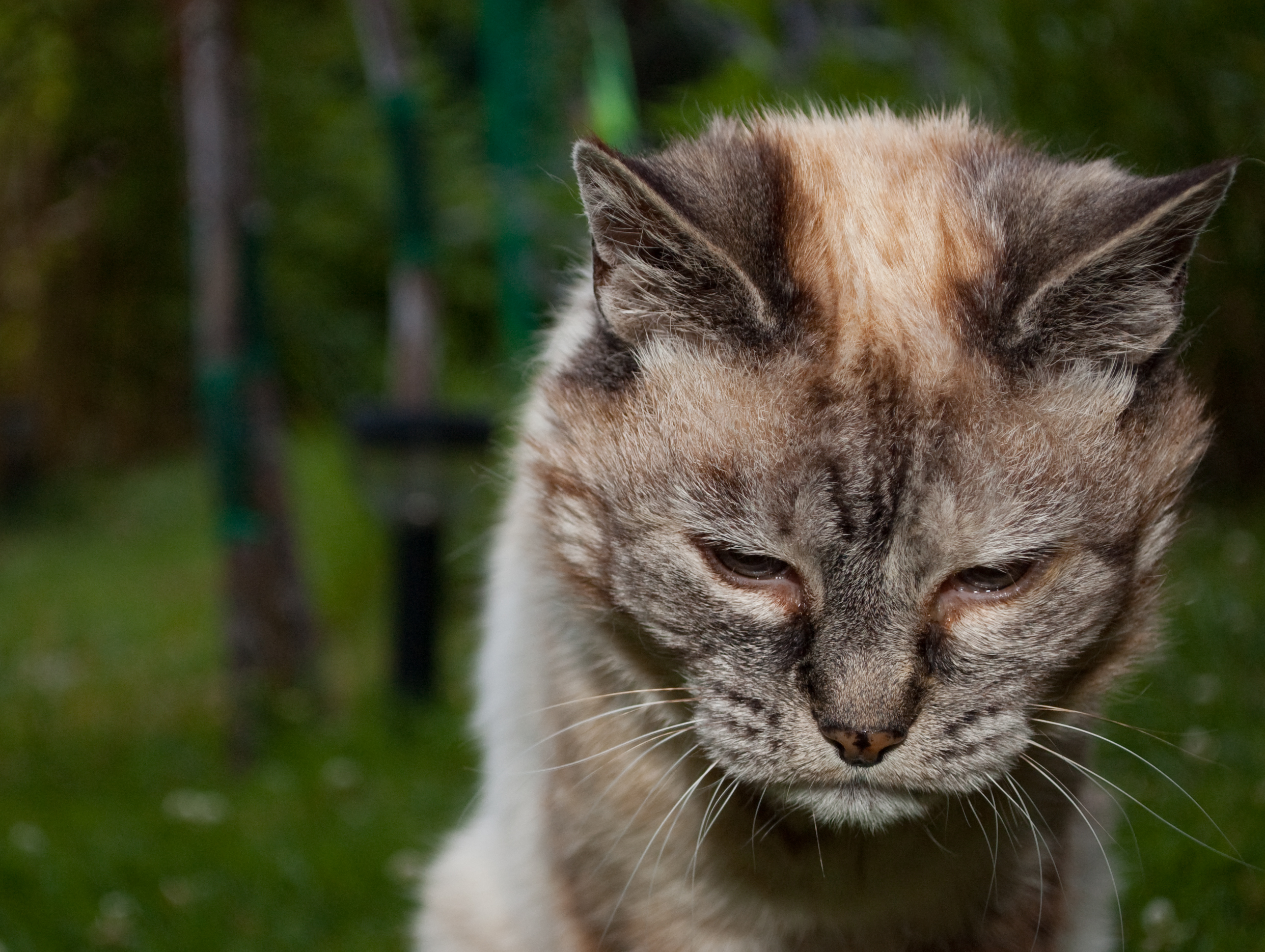 A 20-year-old cat that looks tired because of its advanced age.